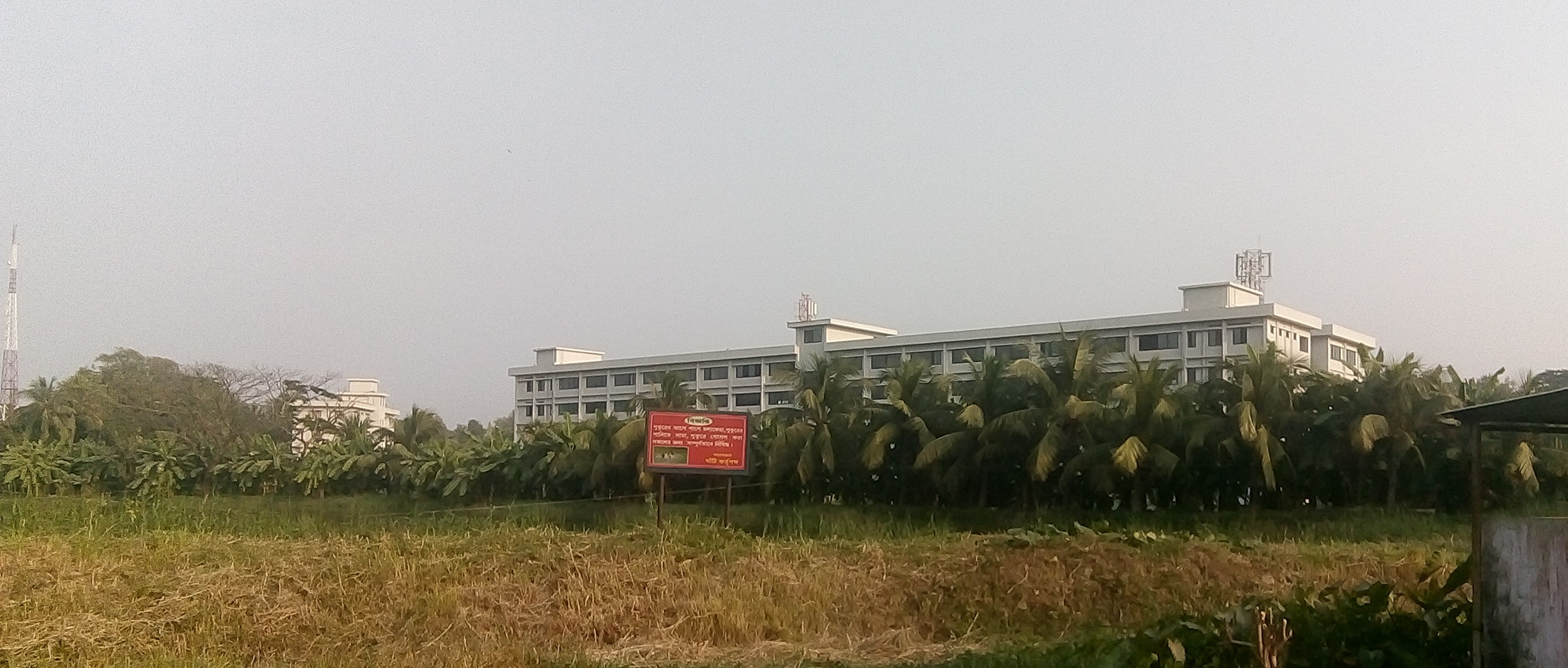 the new five storie building of BAF shaheen college. On its right the teachers quarter is visual